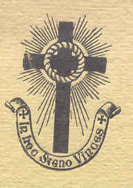 Logo of the Daughters of the Cross (Filles de la Croix de Liège).